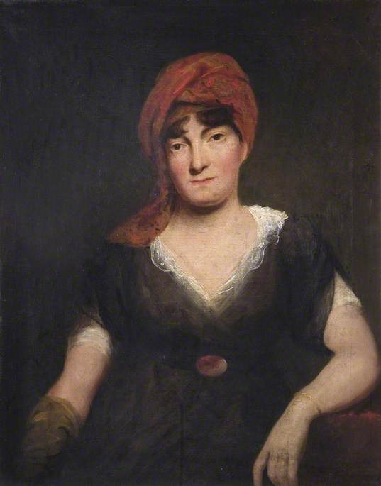 Portrait of Priscilla Kemble (1756-1845)